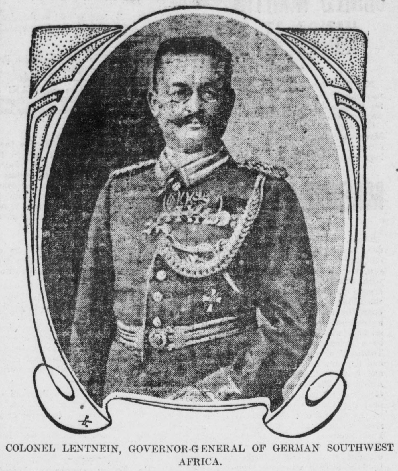 in 1904, Theodor von Leutwein was the governor of German South-West Africa.